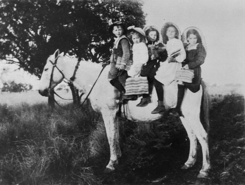 Creator: Unidentified Location: Gindie, Queensland Description: Five children from the Daniels family lined up on the one horse, travelling to school at Gindie in the early 1900s. In 1861 Samuel Daniels sailed from the United Kingdom to Queensland and settled in Gindi. The family was involved in founding the Gindi School. The family still has become very large and still have a proud presence in Gindi. (Description supplied with photograph). View this image at the State Library of Queensland: Information about State Library of Queensland’s collection